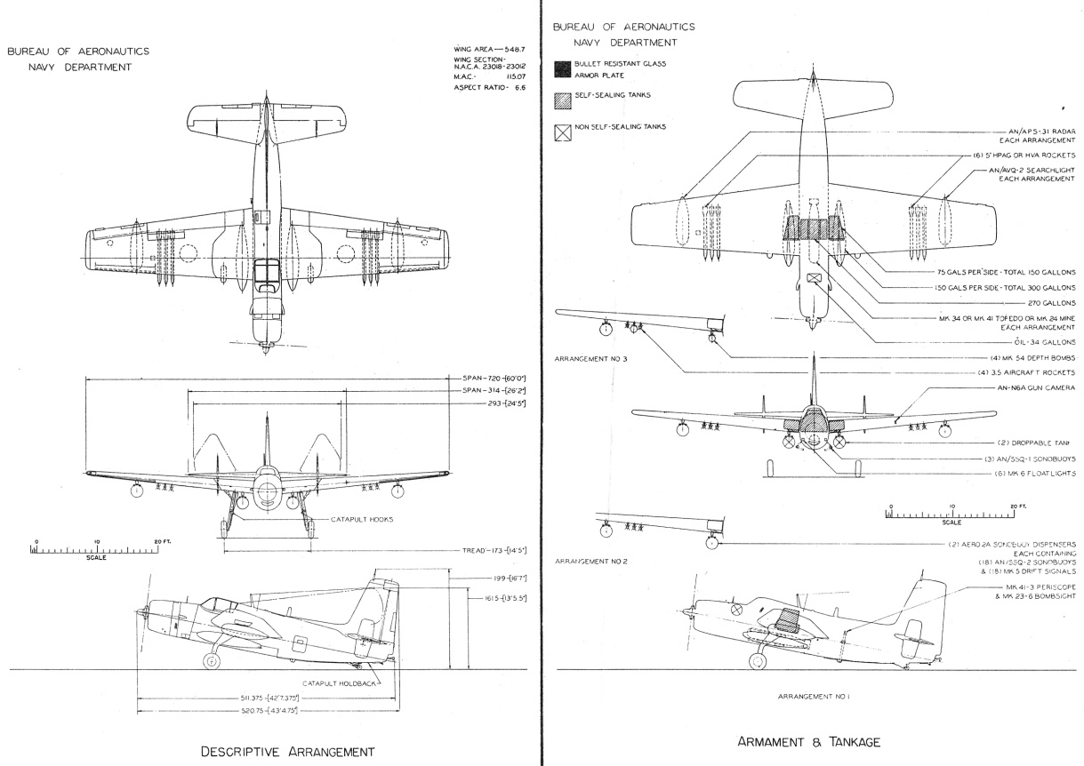 Line drawings of the Grumman AF-2S Guardian from the "Standard Aircraft Characteristics" publication put out by BuAer. It shows the dimensions and general arrangement of various aircraft systems.